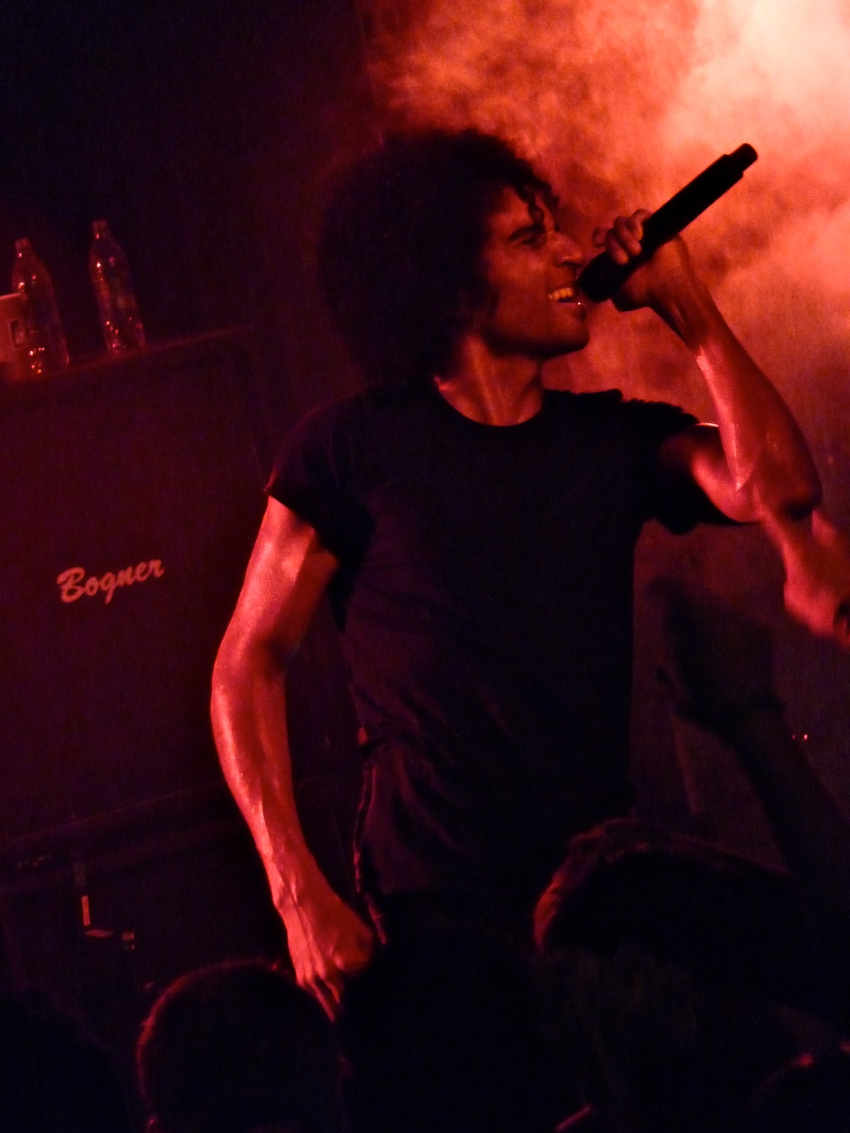 William DuVall live in London, 2009